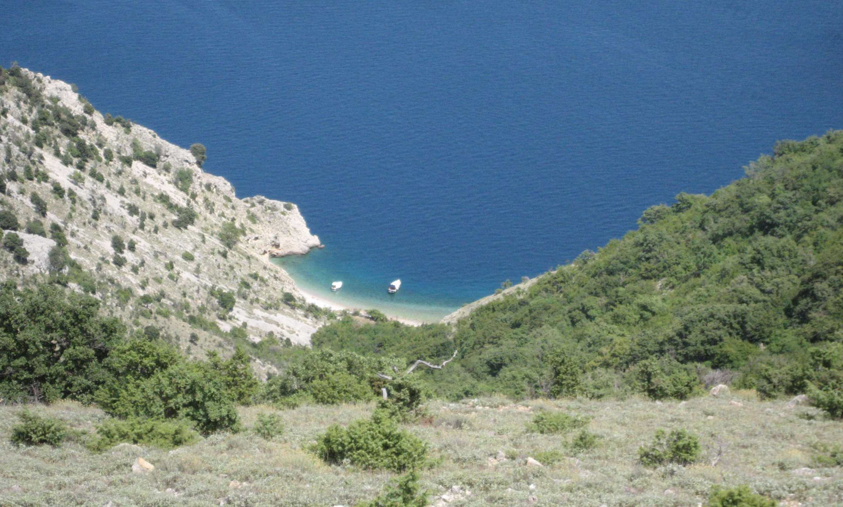 Beach on the island Cres, Croatia